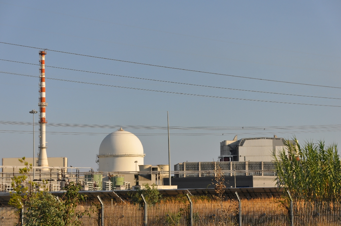 Latina Nuclear Power Plant Dieses Foto entstand in Zusammenarbeit mit Stadtbesichtigungen.de Die Seiten Stadtbesichtigungen.de, der dazugehörige Reise Blog sowie die Facebookseite: Stadtbesichtigungen Rom dürfen dieses Bild für Ihre Veröffentlichungen ohne den Hinweis auf Wikipedia, Commons bzw der Lizenz verwenden. Die Verantwortlichen habe von mir (Ra Boe) die Originaldaten zur freien Verfügung übermittelt bekommen.